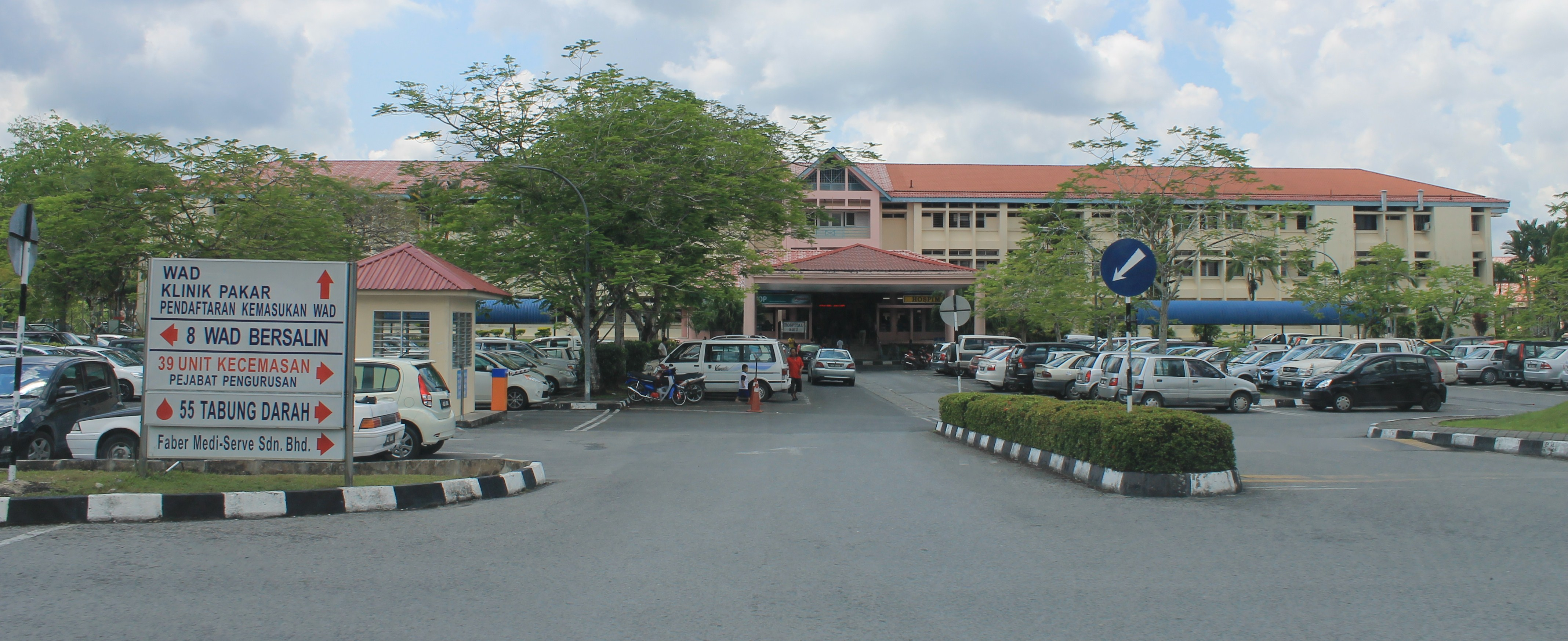 The Sibu Hospital at Jalan Ulu Oya, Sibu. Translations of words as shown in signboard are: Wad (Wards), Klinik Pakar (Specialist clinics), Pendaftaran Kemasukan Wad (Registration for ward entry), Wad bersalin (Labour & delivery ward), Unit Kecemasan (Emergency departments), and Tabung Darah (Blood banks)